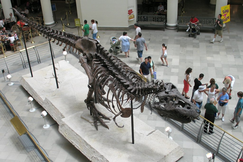 Sue, the largest, most complete Tyrannosaurus rex ever discovered, at Chicago's Field Museum of Natural History. Taken from second floor of the museum.